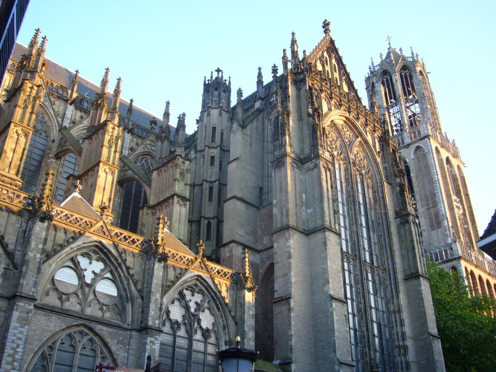 Utrecht cathedral (Domkerk) from the north